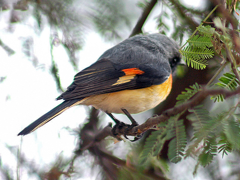 Small Minivet Pericrocotus cinnamomeus at Bharatpur, Rajasthan, India.